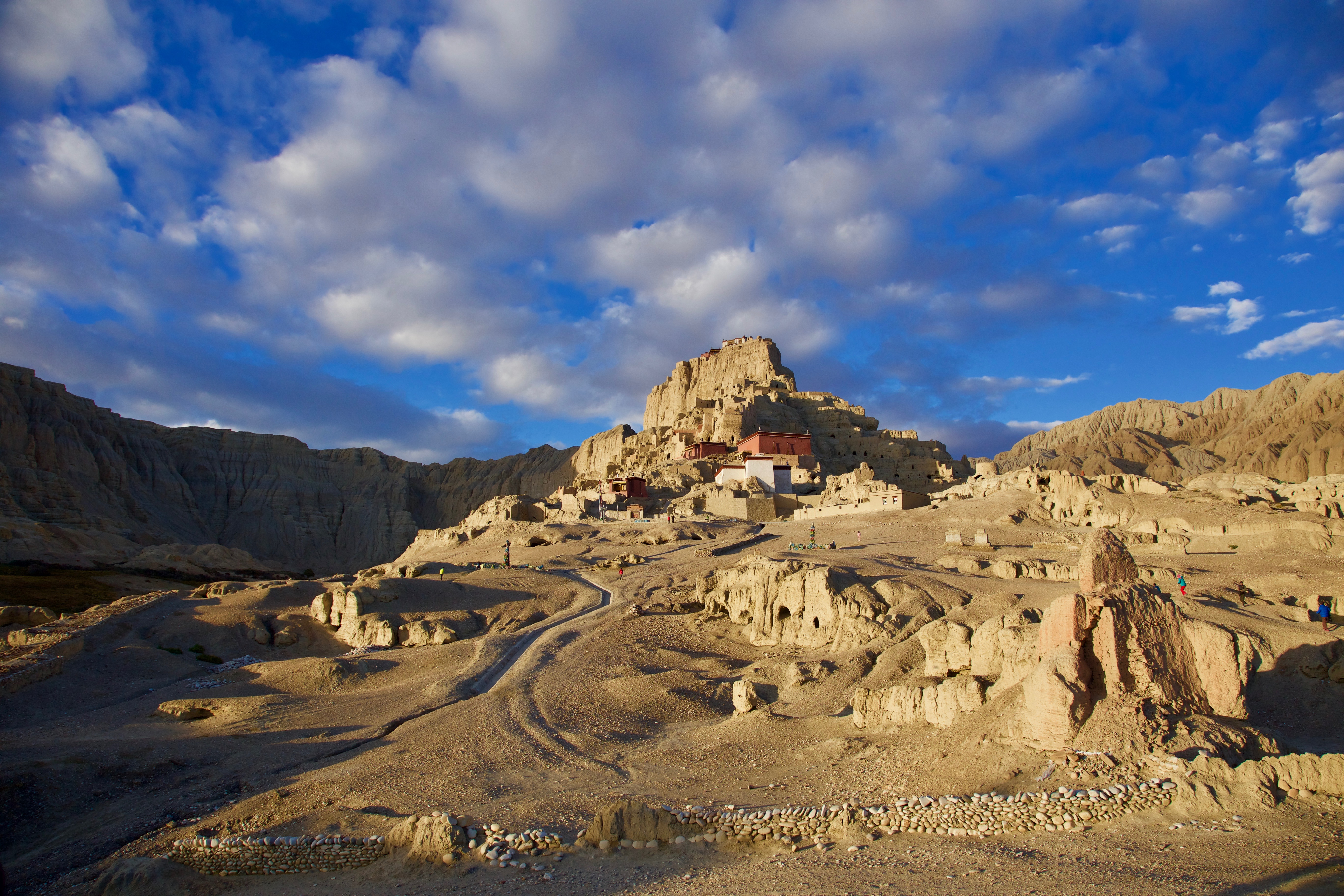 Tsaparang citadel in former Guge Kingdom, Tibet